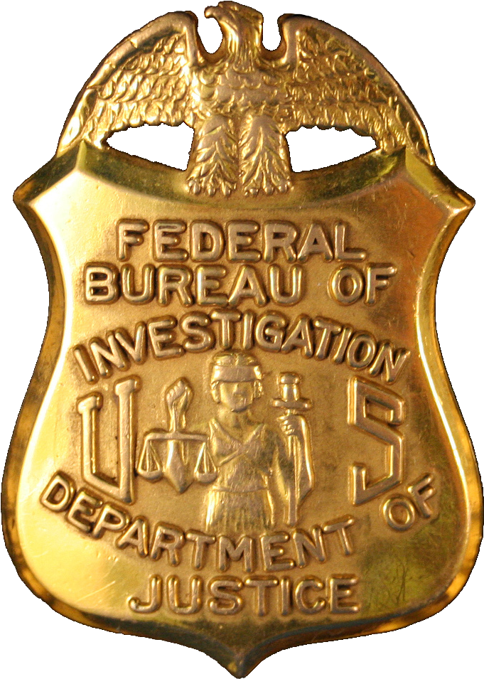 The badge of the Federal Bureau of Investigation (FBI).